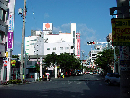 Former Daiei Naha Branch, also known as Dai-Naha, later the shop named D-naha.